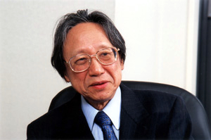 Susumu Nakanishi is the Director of Nara Prefecture Complex of Man'yo Culture.